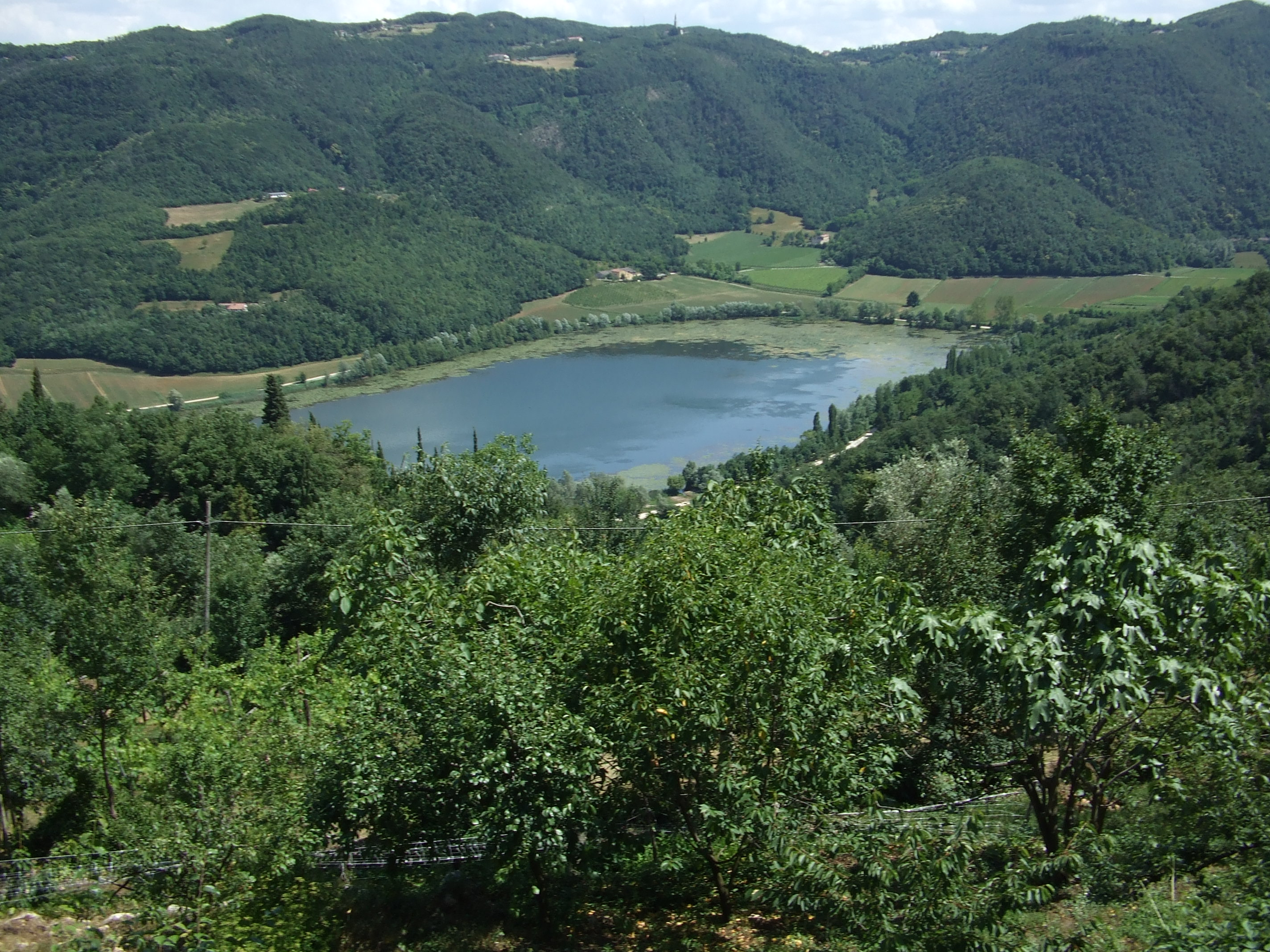 Fimon Lake, in the region of the Colli Berici (Vicenza, Veneto, Northern Italy)